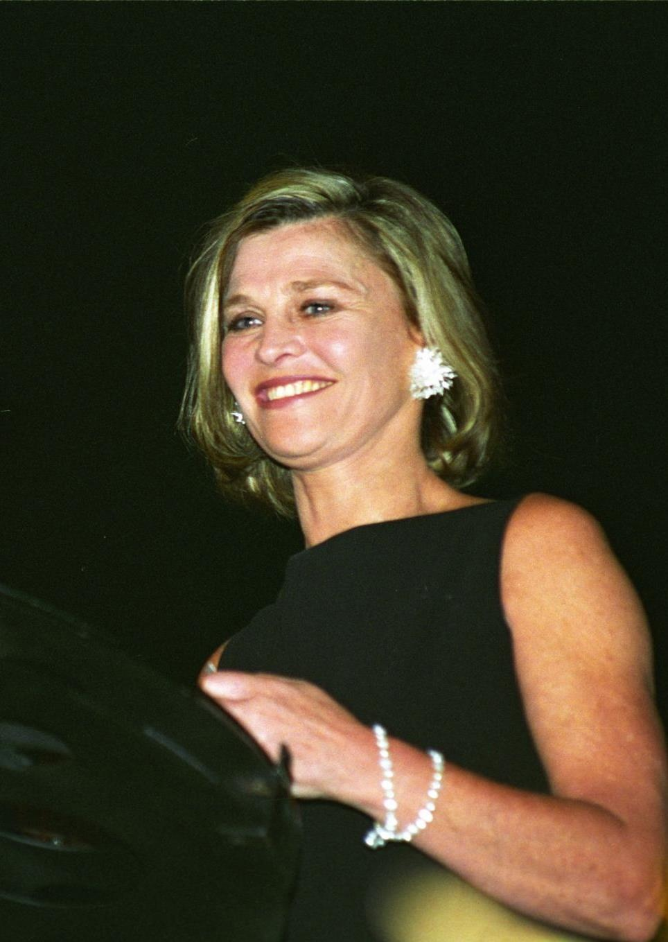 Julie Christie at the closing and awards ceremony of the 12th Guadalajara International Film Festival in 1997. A4 version.